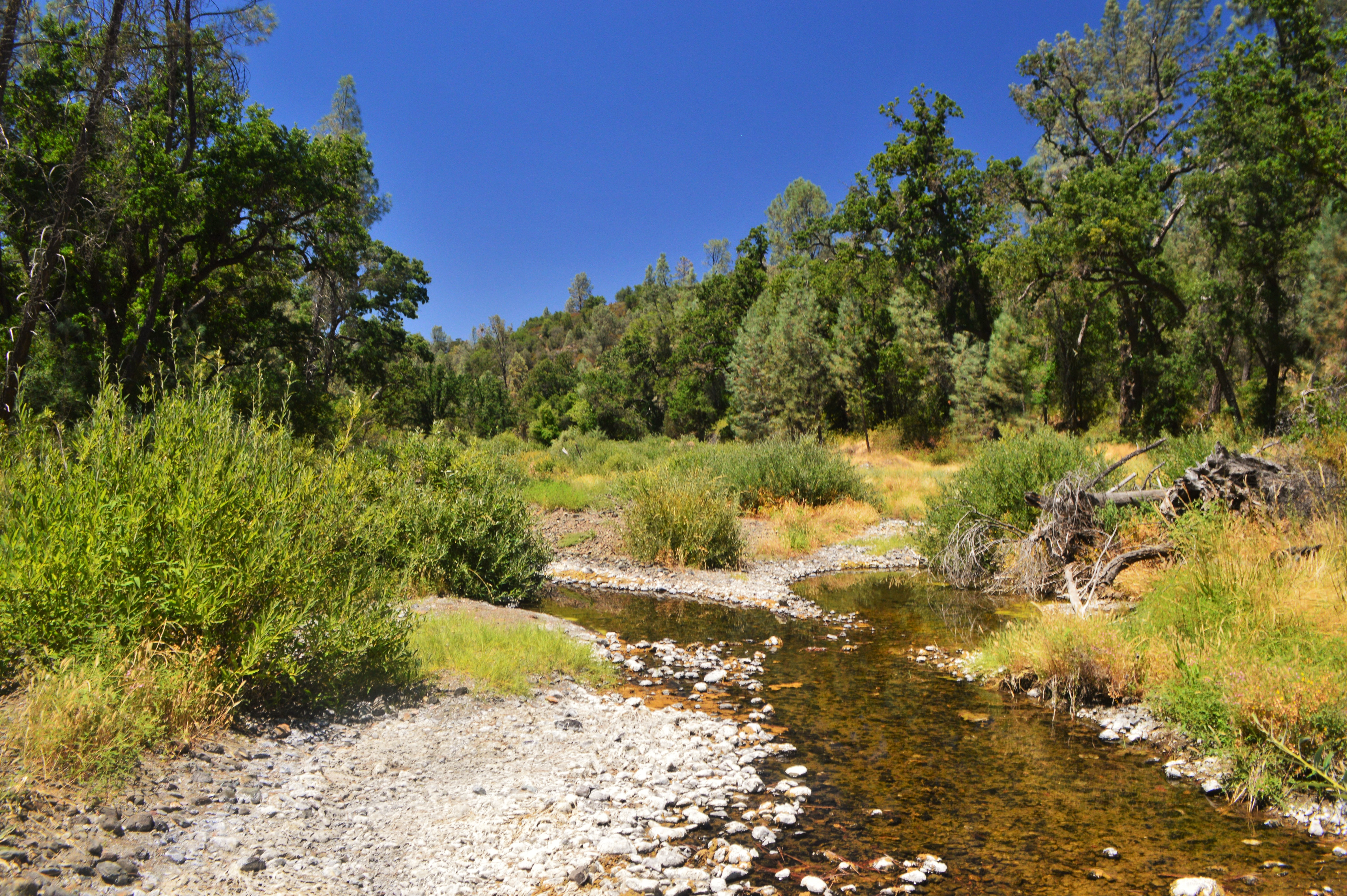 View of Butts Creek in July as it flows through Snell Valley